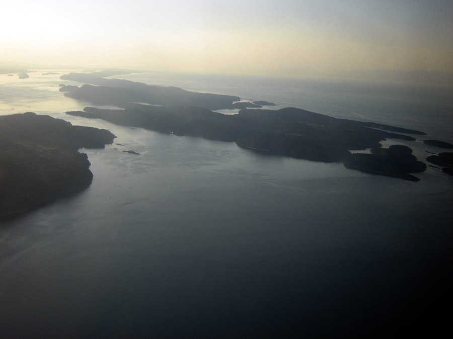 Photo by Keith Freeman Taken: April 23, 2006